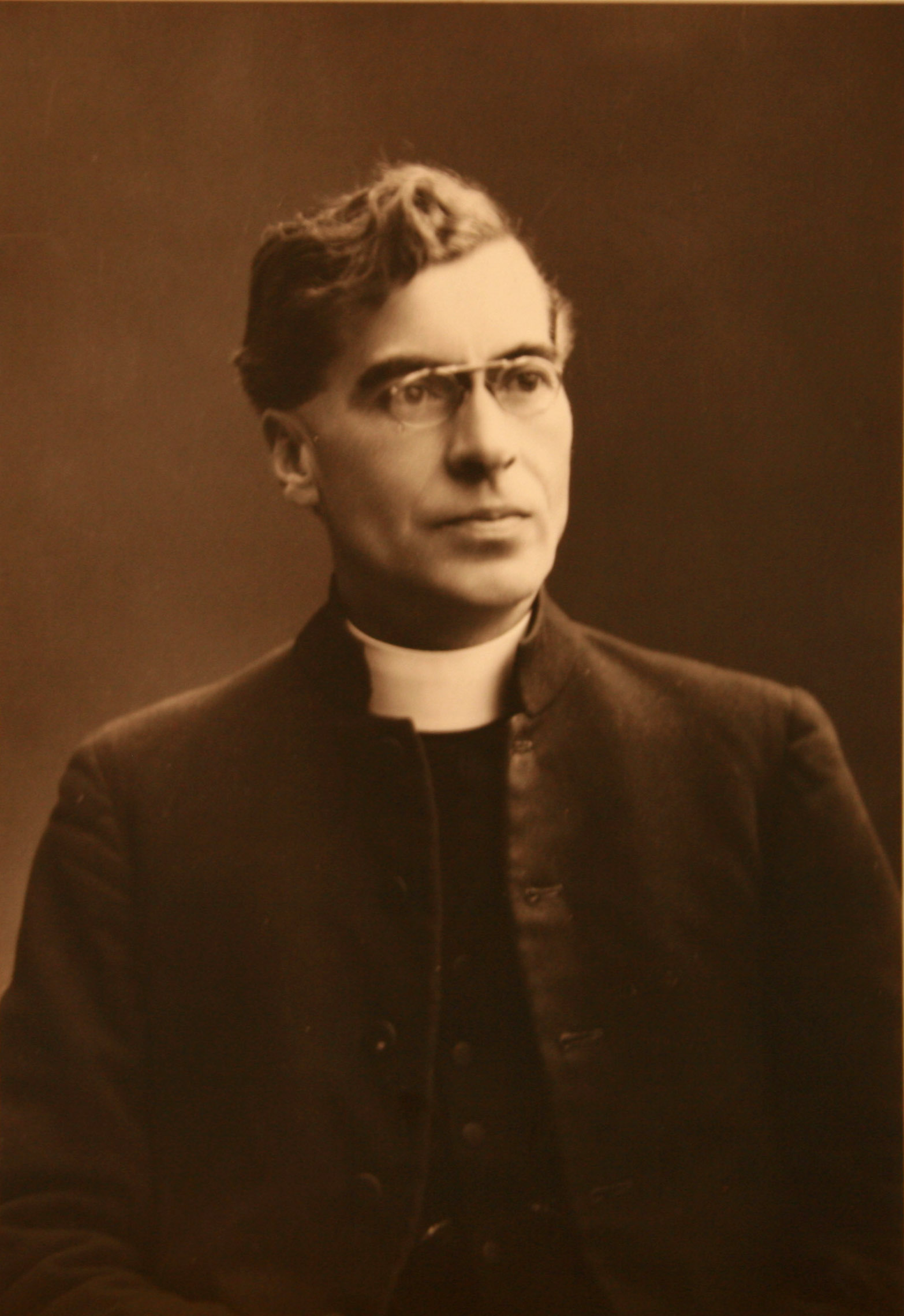 Rev. Patrick J. MacSwiney, C.C., M.A. (1885-1940). He was curate in the parish of Kinsale, County Cork, Ireland from 1927-1940.